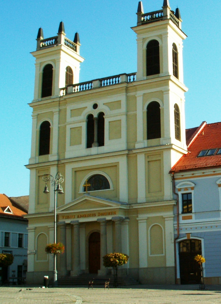 Church St Francis Xavier in Banská Bystrica, Slowakia. Former church of the Jesuit Order, now cathedral of the roman-catholic diocese Banská Bystrica. Description of the original